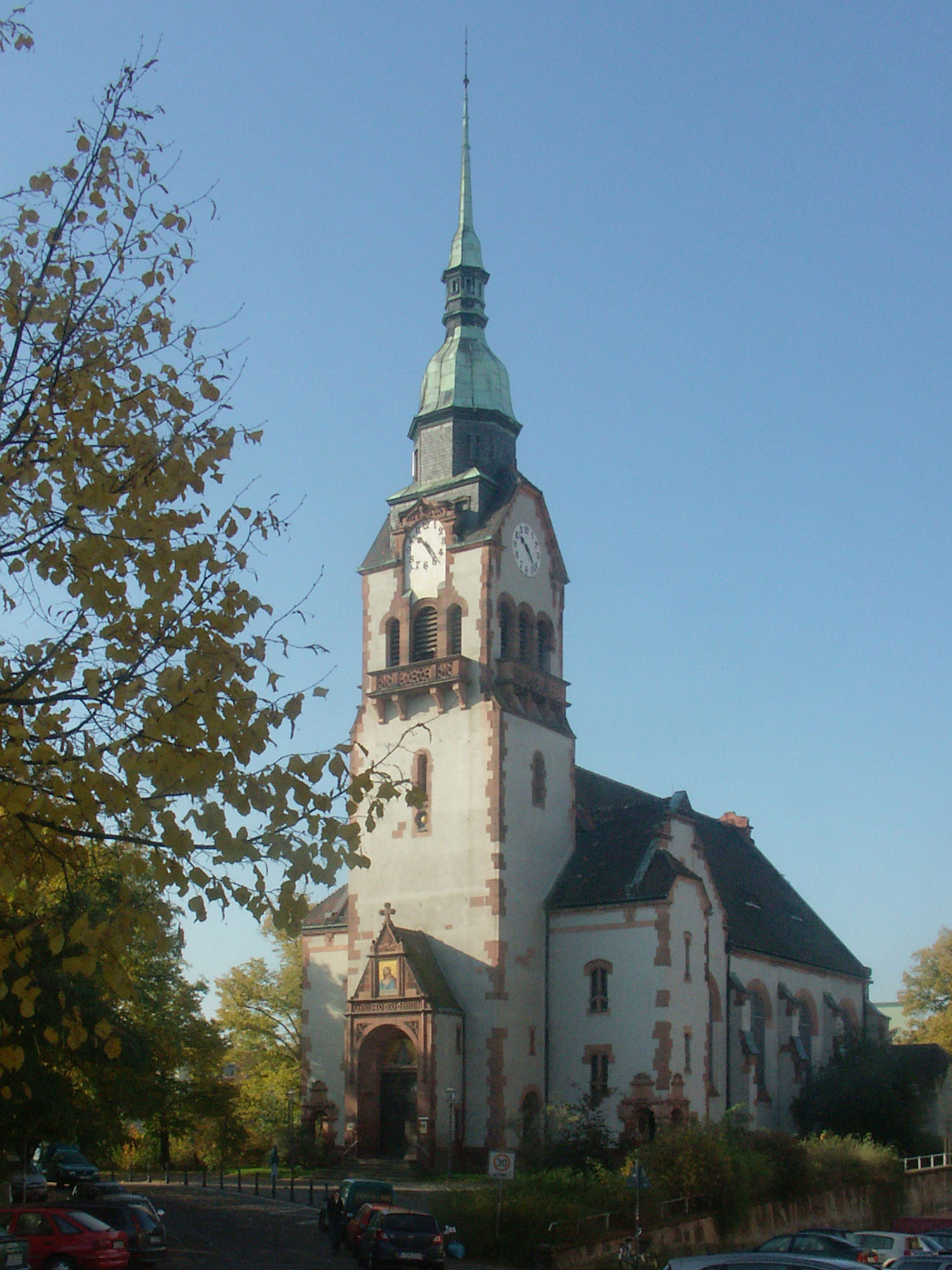 Lutheran Paul Gerhardt Church in Leipzig-Connewitz, Selneckerstraße 5